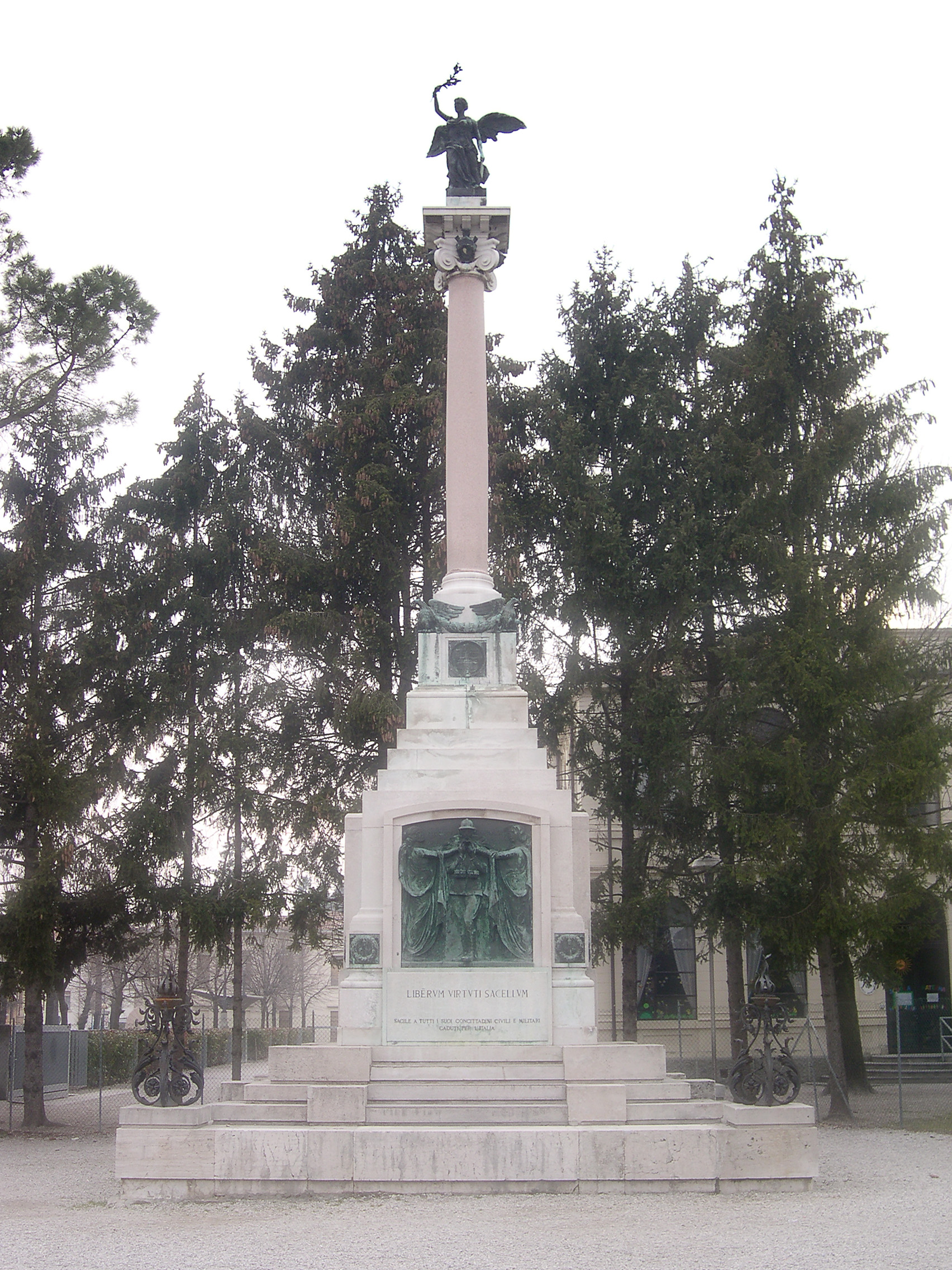 World War I memorial in Sacile (Italy). May soldiers and who died because of war rest in peace...